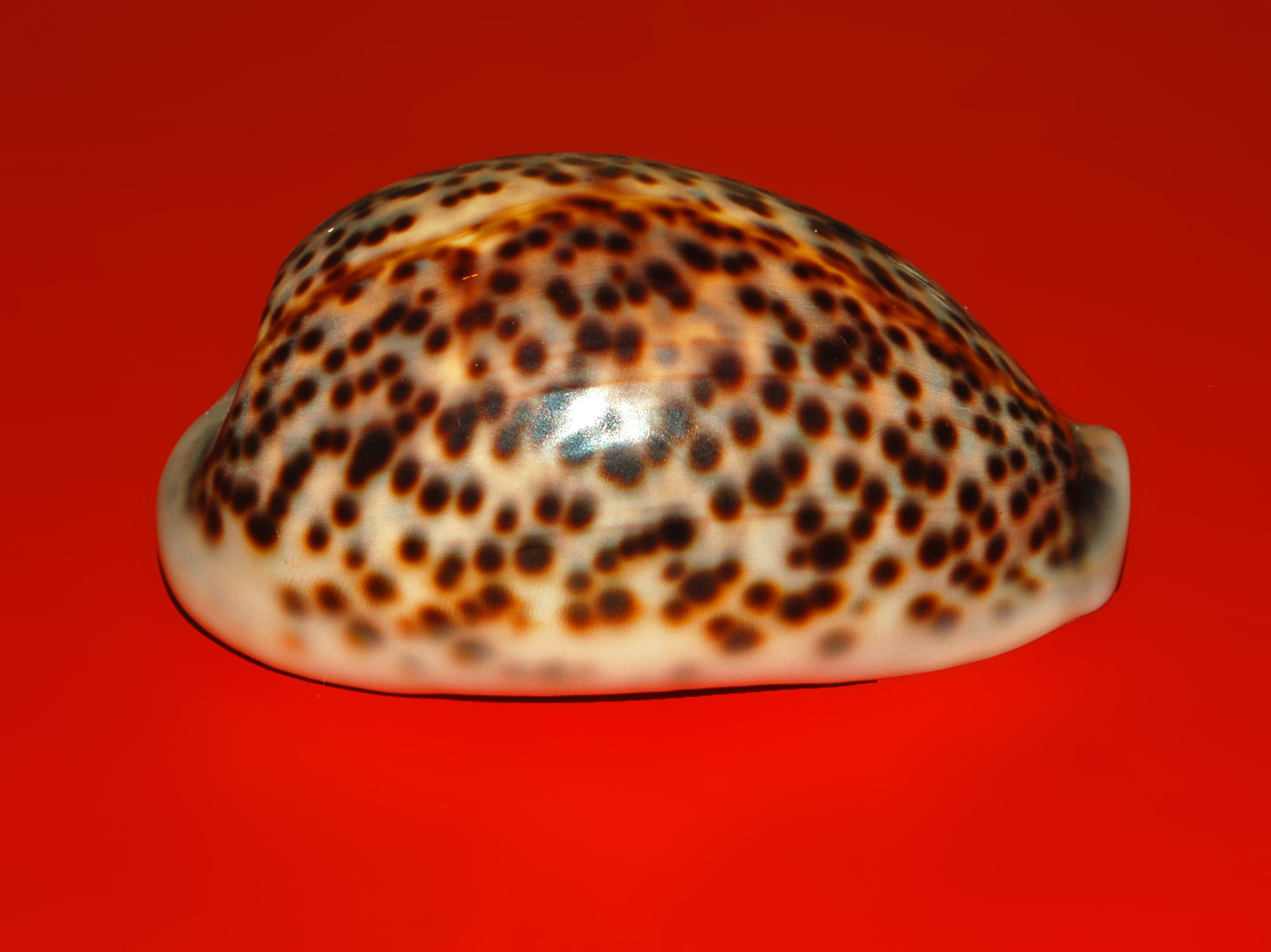 Cypraea pantherina - Sudan